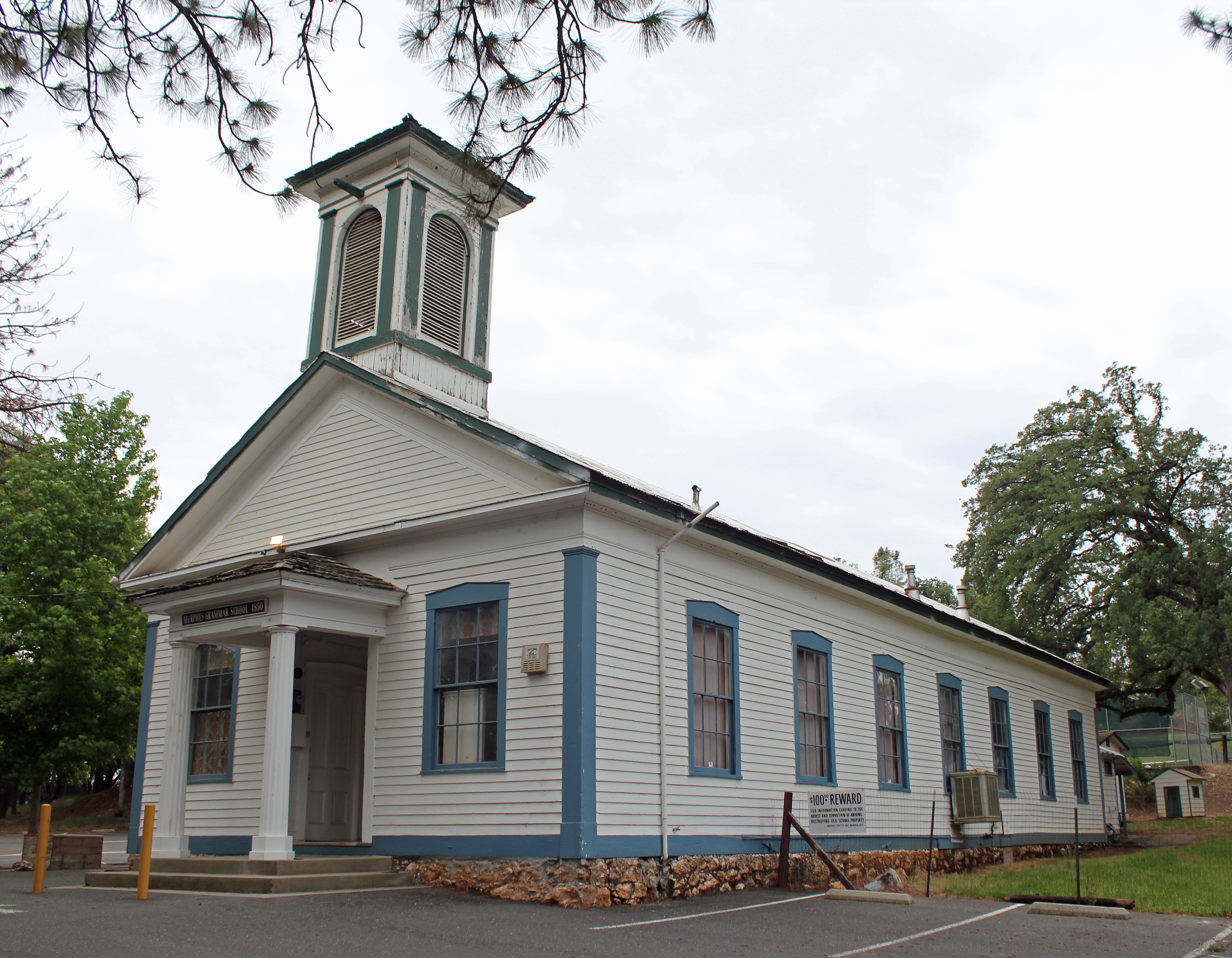 The Murphys Grammar School, located at 65 Jones Street in Murphys, California. The property is listed on the National Register of Historic Places.